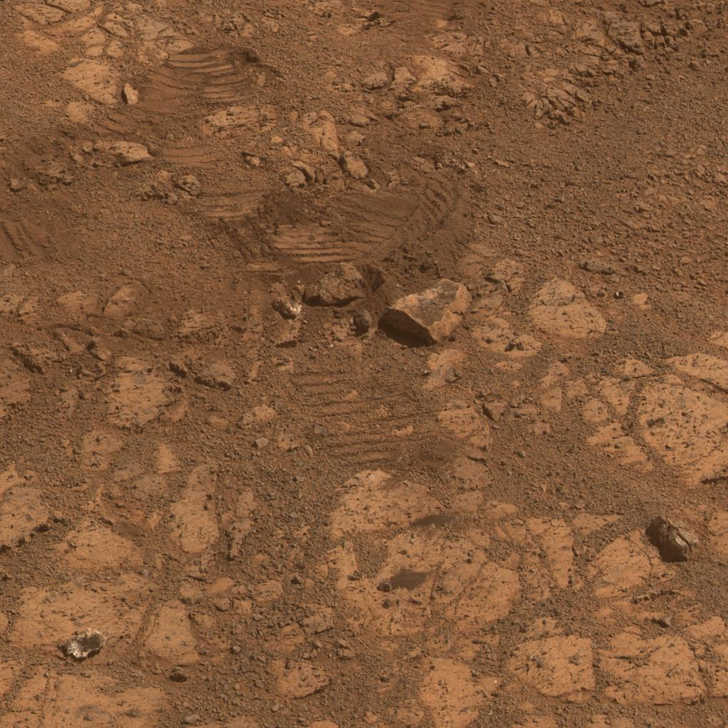 Where Martian 'Jelly Doughnut' Rock Came From This image from the panoramic camera (Pancam) on NASA's Mars Exploration Rover Opportunity shows the location of a rock called "Pinnacle Island" had been before it appeared in front of the rover in early January 2014. This image was taken during the 3,567th Martian day, or sol, of Opportunity's work on Mars (Feb. 4, 2014). Pinnacle Island, (see arrow in Figure 3 in the lower left corner of the scene), has a dark-red center and white rim, an appearance that has been likened to a jelly doughnut. It showed up in front of Opportunity in an image taken on Sol 3540 (Jan. 8, 2014) at a location where the rock had been absent in an image taken four sols earlier. Researchers used the microscopic imager and alpha particle X-ray spectrometer on Opportunity's robotic arm to examine Pinnacle Island for several days in January. In this February image, a rock that has been dubbed "Stuart Island," with similar dark-red center and white edge, is visible just left the scene (see arrow in Figure 3 at near center). Its location is uphill from Pinnacle Island. The rover's own solar panels blocked a view of it while the robotic-arm instruments were studying Pinnacle Island. The wheel track beside Stuart Island helps tell the story: Opportunity drove over a rock and broke it open. One of the pieces, Pinnacle Island, was knocked downhill. For scale, Pinnacle Island is about 3 feet (1 meter) from Stuart Island. The view merges exposures taken through three of the Pancam's color filters and is presented in approximate true color. A version in false color, to emphasize subtle color differences among Martian surface materials, is available as Figure 1. A stereo version, Figure2, appears three dimensional when viewed through red-blue glasses with the red lens on the left. JPL manages the Mars Exploration Rover Project for NASA's Science Mission Directorate in Washington. For more information about Spirit and Opportunity, visit